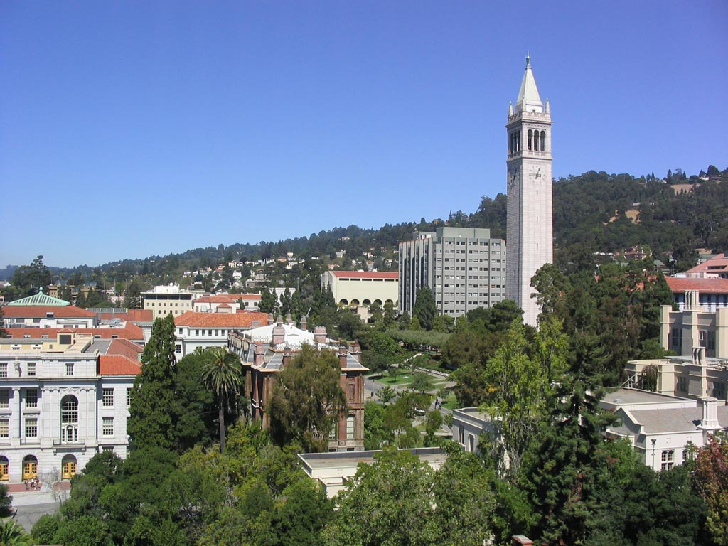 Photograph of the University of California campus